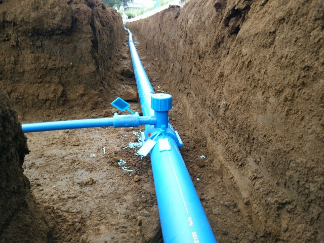 This is a picture taken at the exhibition.